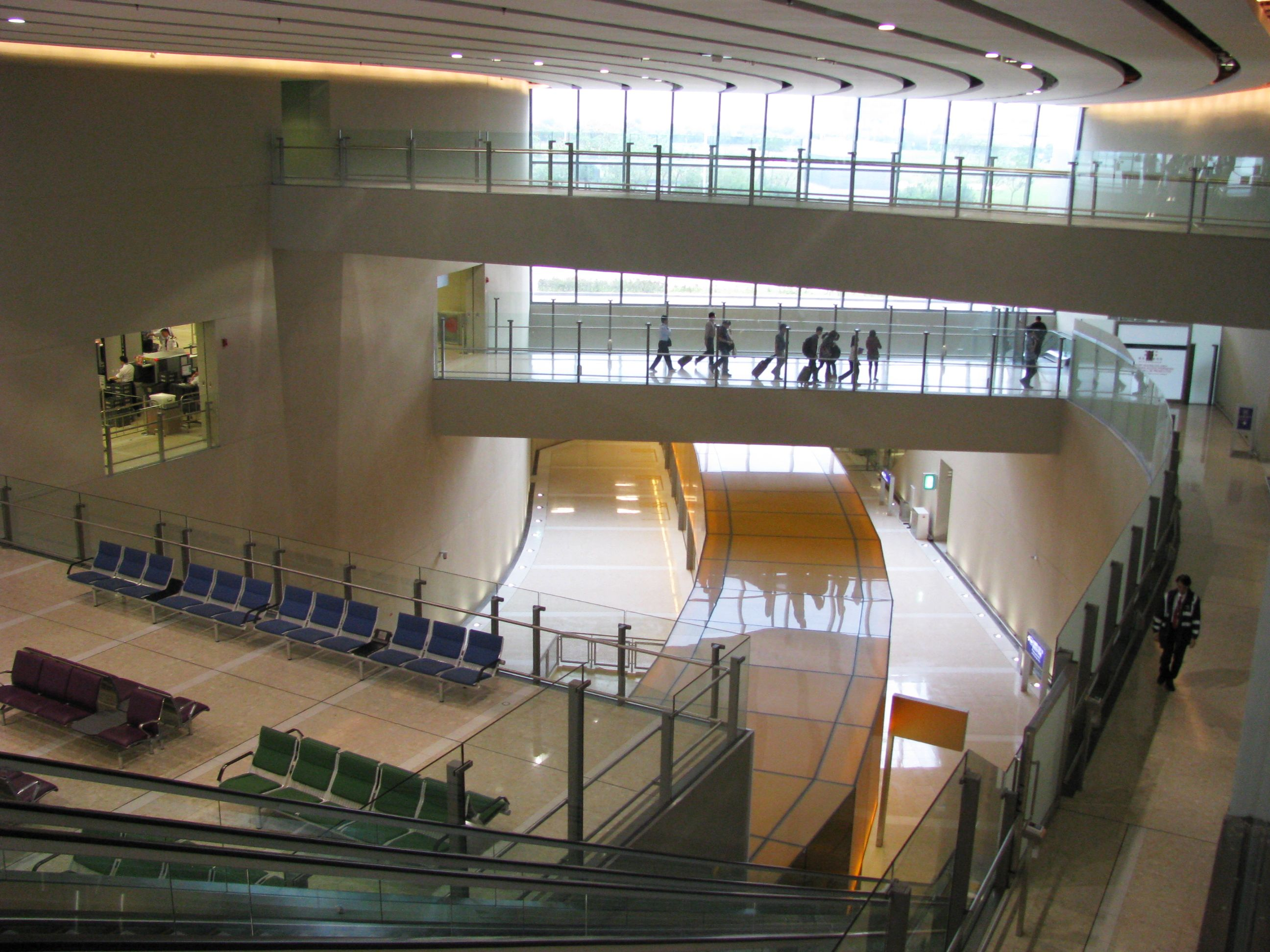 SkyPier Station of APM in Hong Kong International Airport.